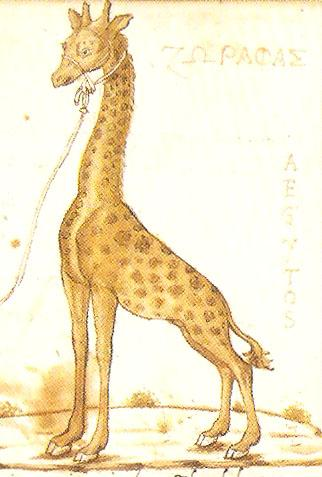 Giraffe. From Cyriacus of Ancona's Egyptian Voyage.